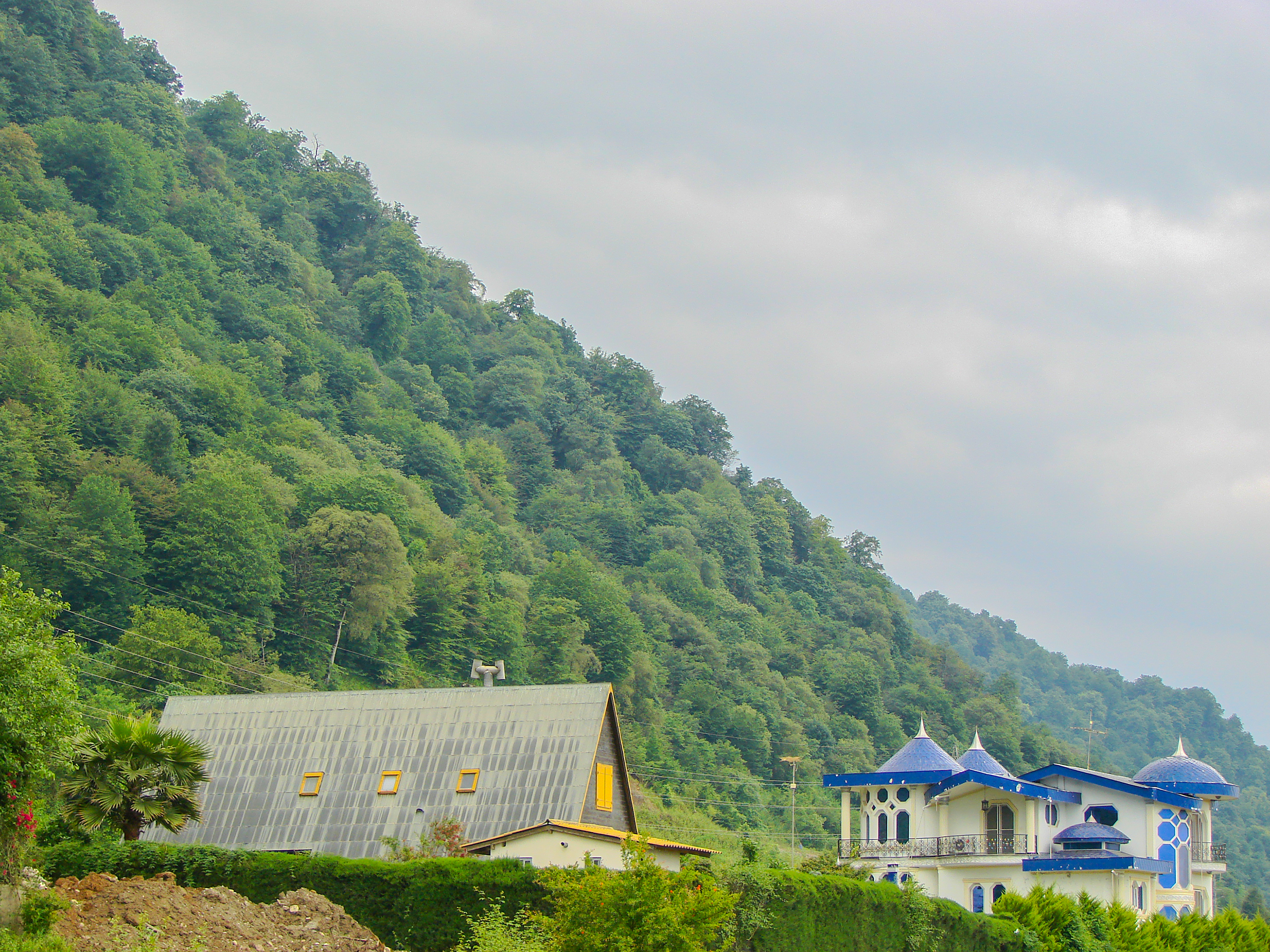 Shahrak-e Namak Abrud is a touristic village and has an aerial tramway which starts at the sea level near the shores of the Caspian Sea and ends on the top of the Alborz heights crossing dense forest area of northern Iran. There are numerous villa cities around it which form a vacation region for the people of Tehran.